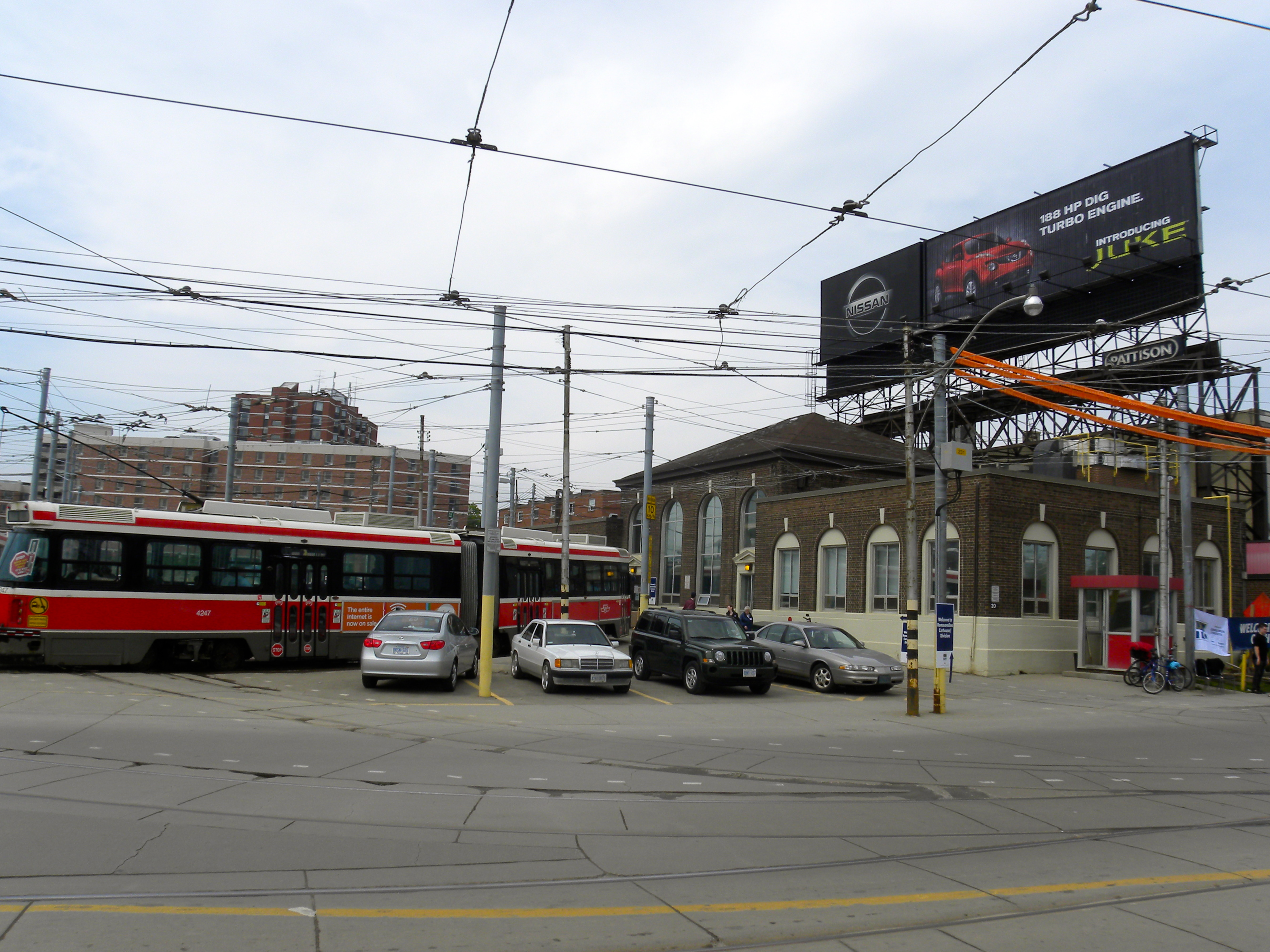 Over to the west-end nabe of Parkdale for a tour of the TTC's Roncesvalles Carhouse.